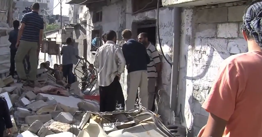 A shell hit the home of a family living in Gaza City destroying not only the house but the family as well.